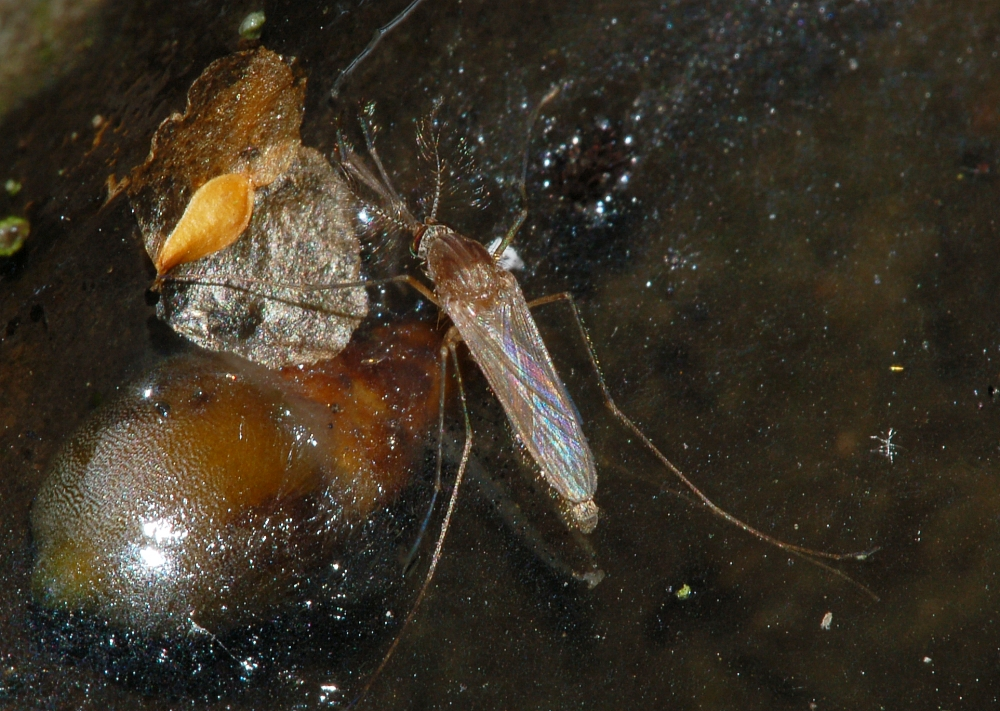 Culicidae - oviposition, Nied, Frankfurt/Main, Germany